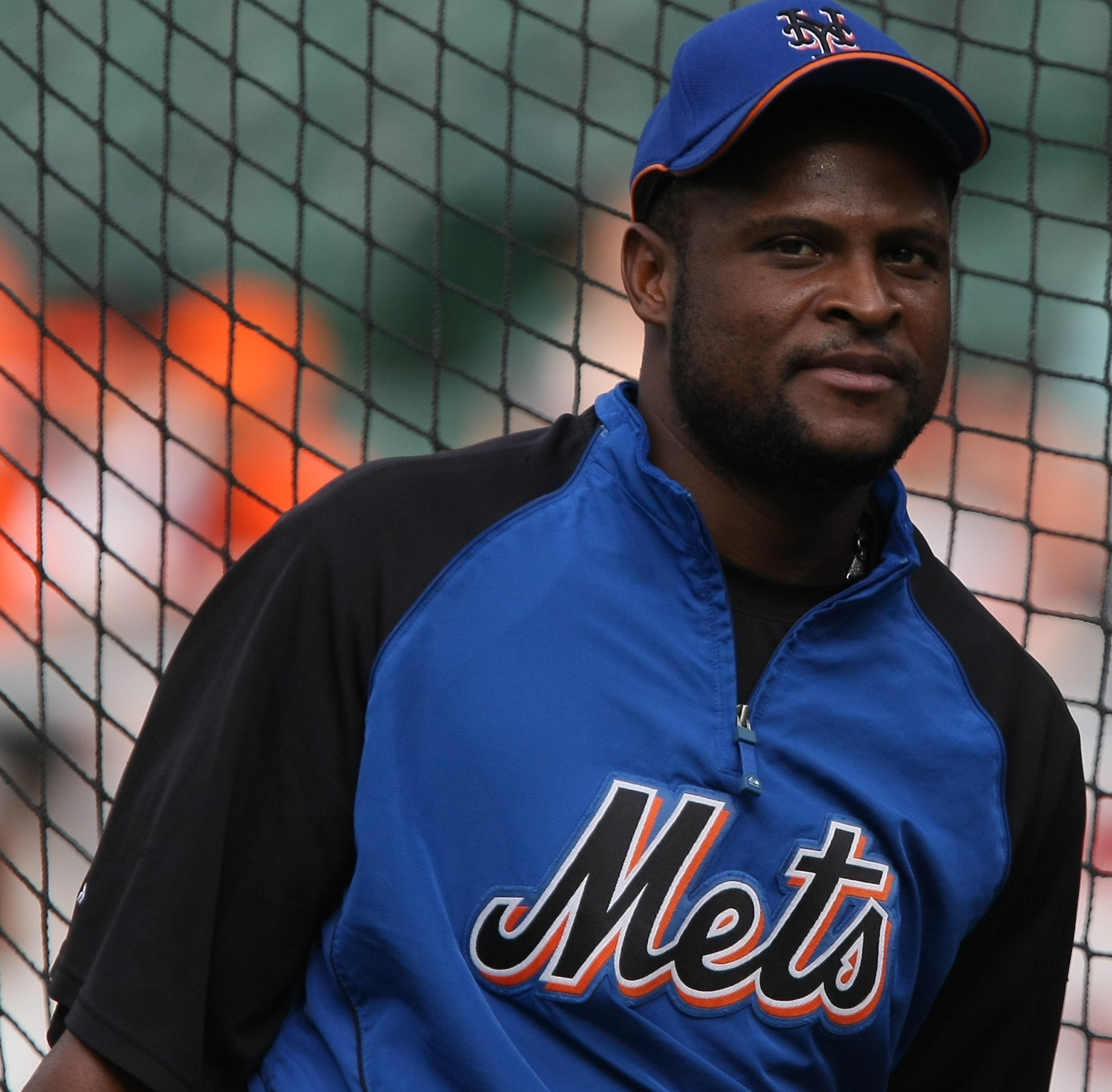 Dominican Major League Baseball player Luis Castillo.